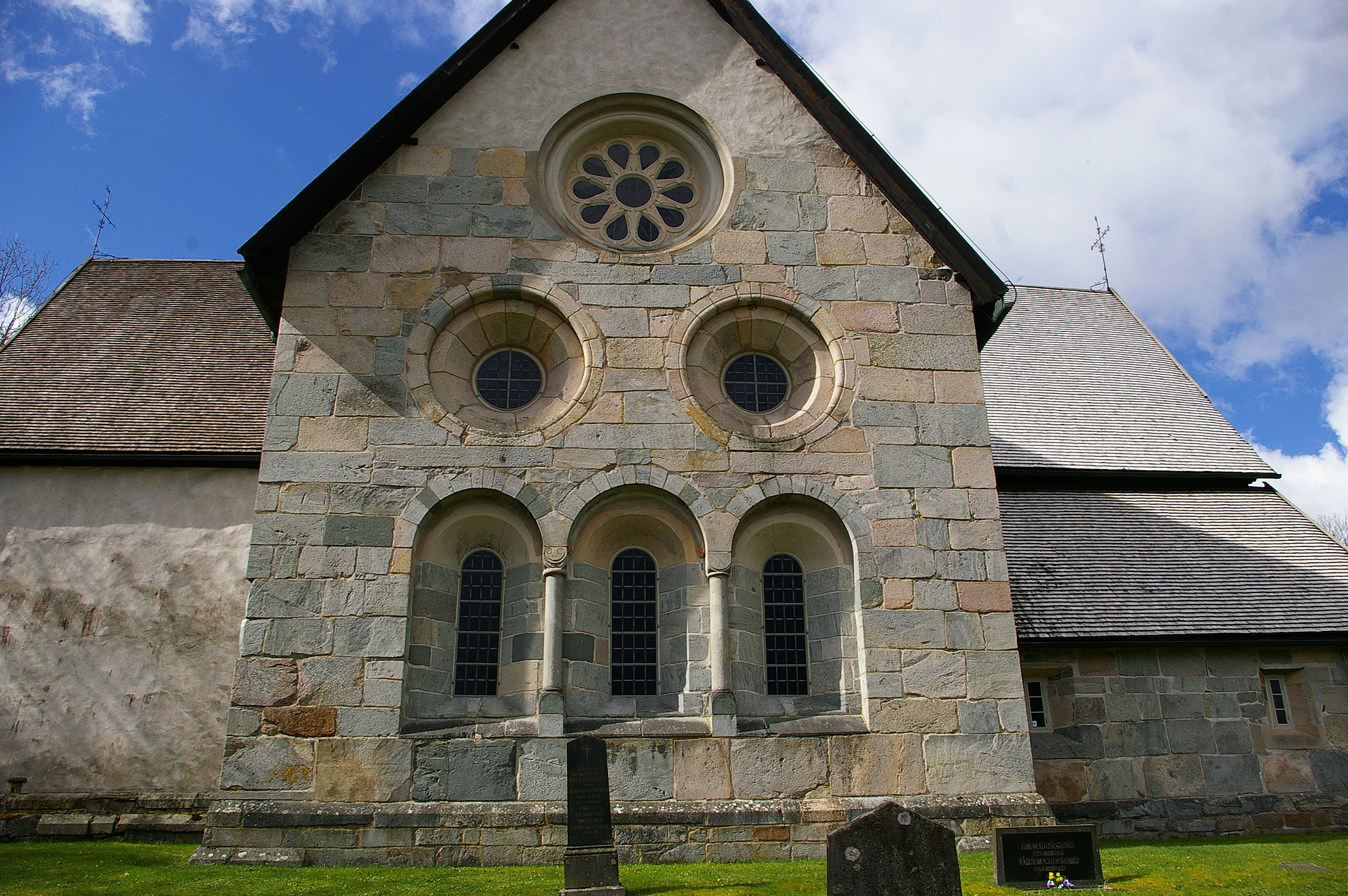 Nydala monastry in Sweden.